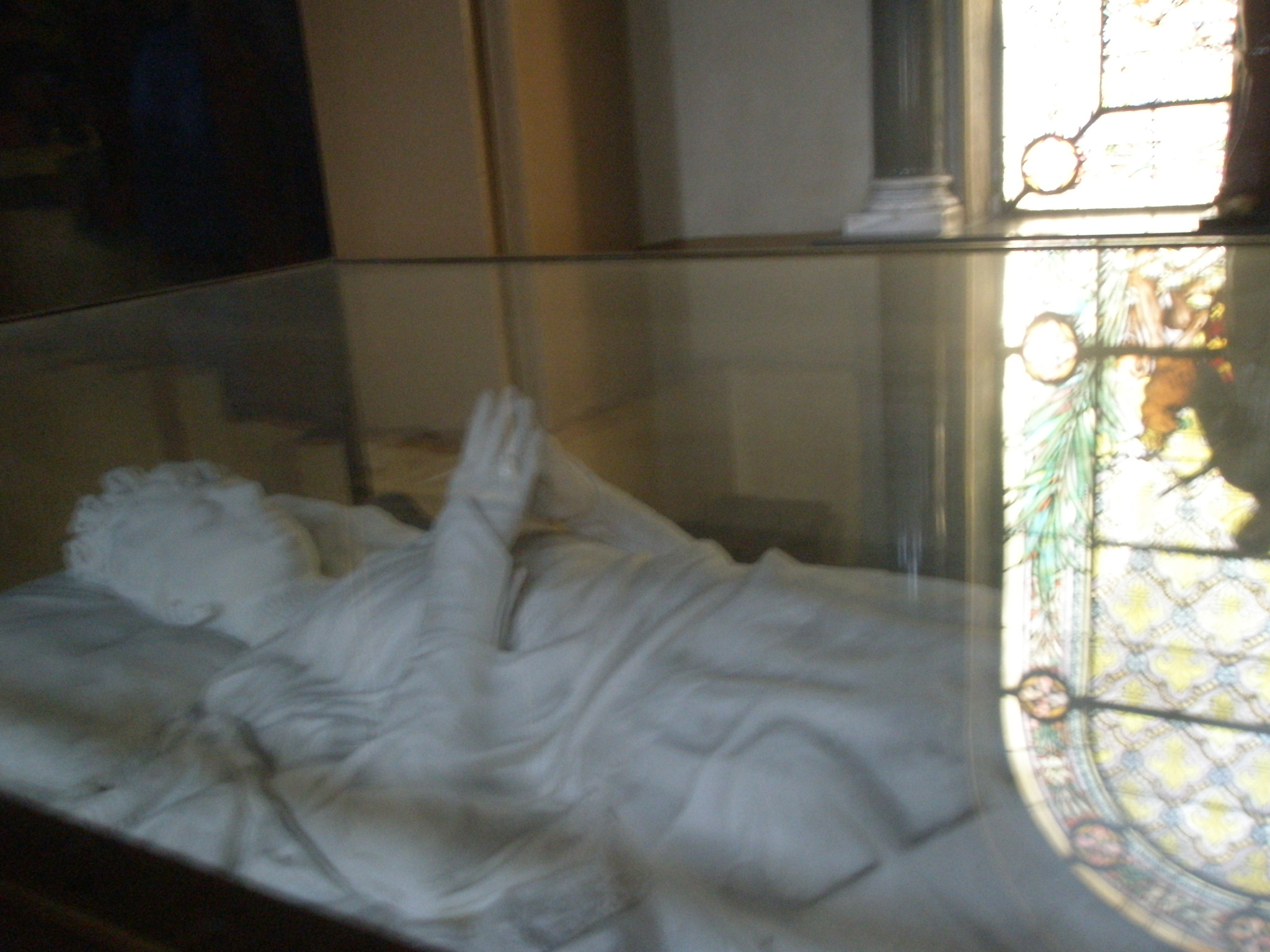 Мария Луиза - надгробие